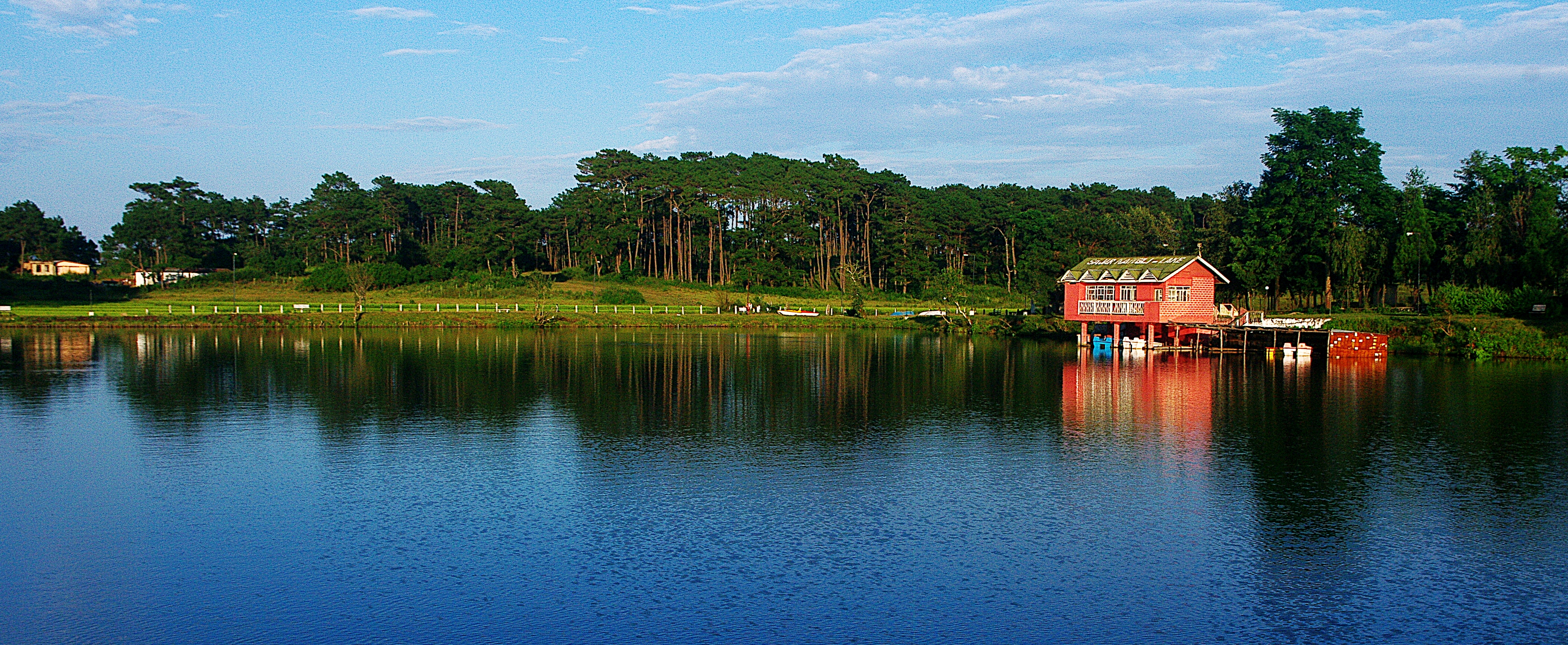 The serene Thadlaskein Lake is located at Jowai, Meghalaya, a remote place between Shillong and Agartala in North-East India.